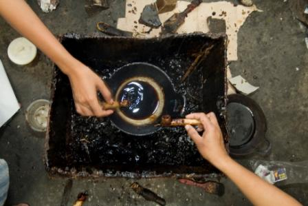 Batik crafters fill their canting (a copper pen) with a hot liquid wax at a batik workshop in Gulurejo village, near Yogyakarta.